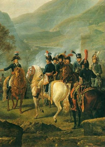 general Bonaparte at the battle of Castiglione (1796)